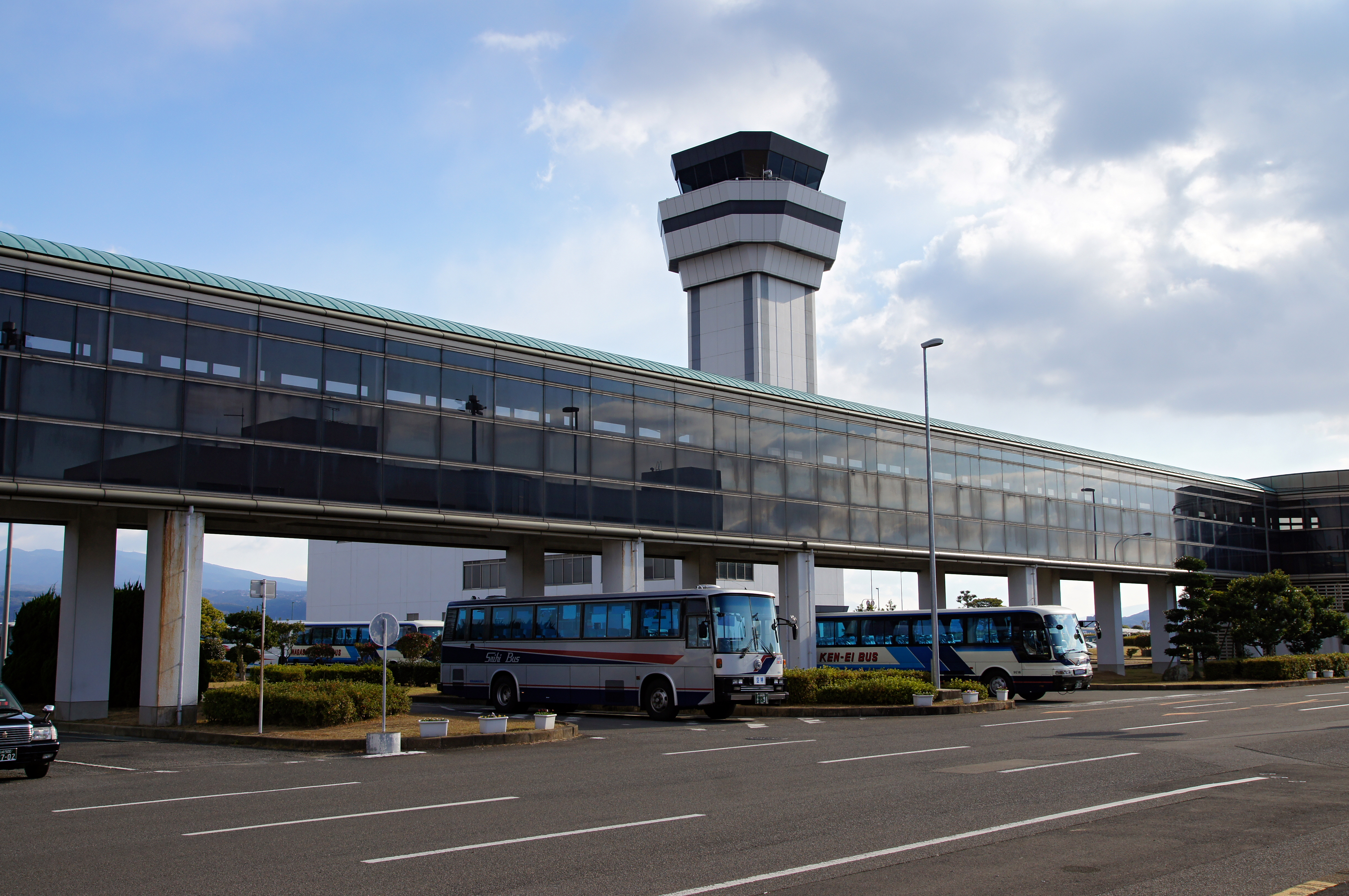 Nagasaki Airport in Omura, Nagasaki prefecture, Japan